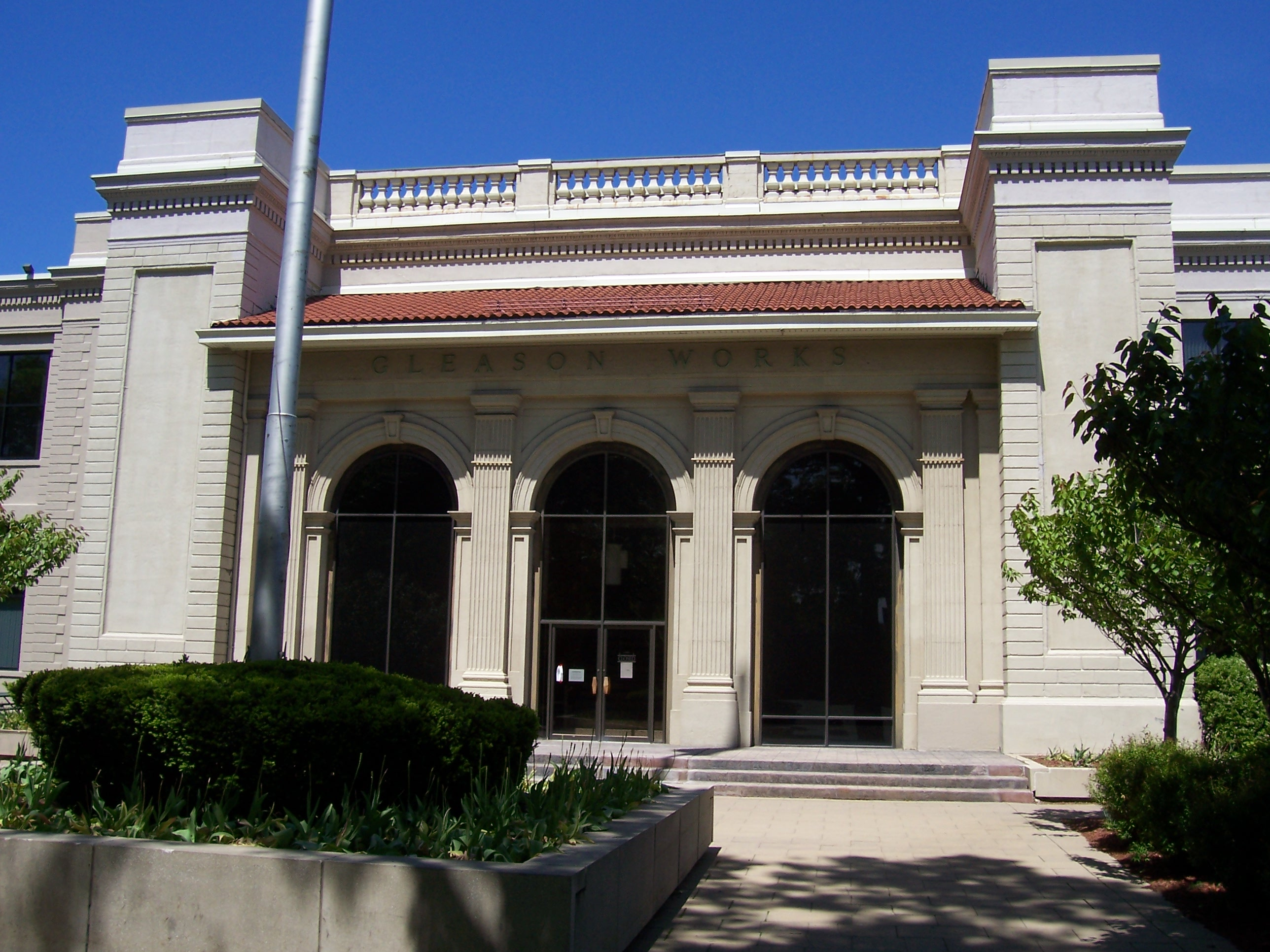 Gleason Works main entrance in Rochester, New York